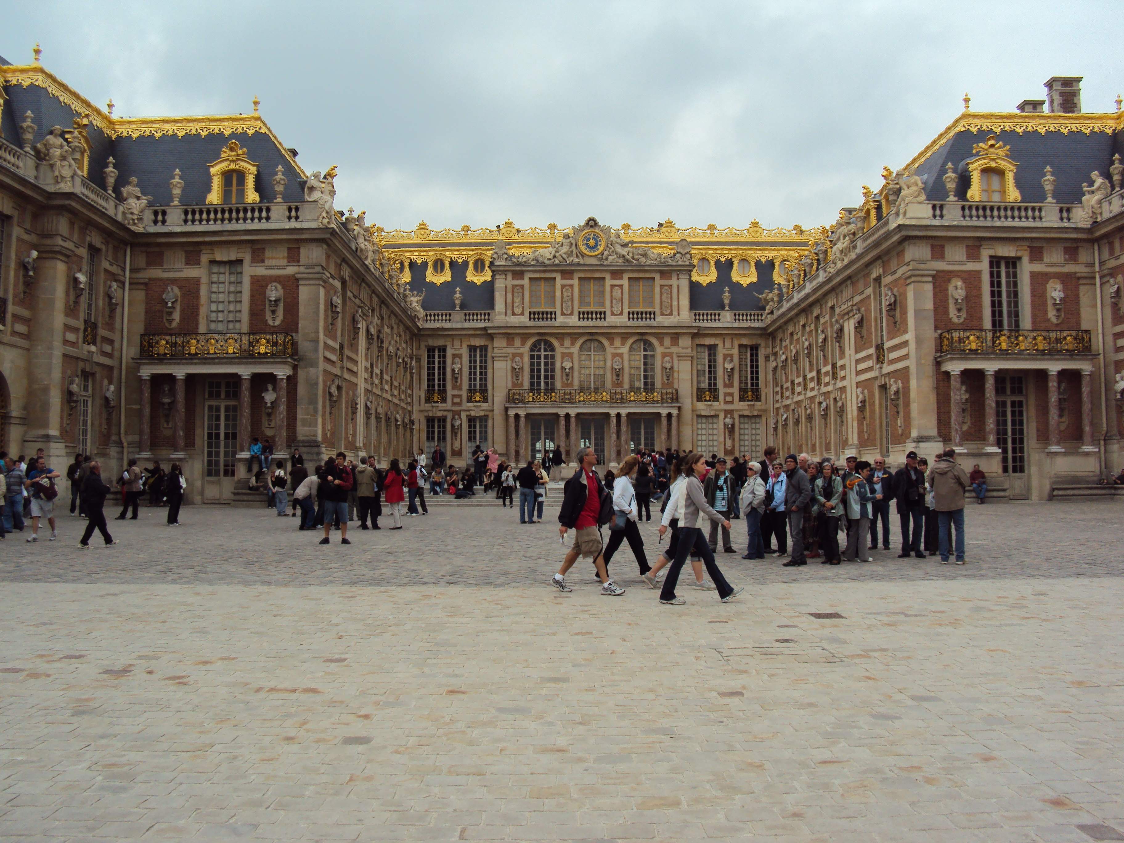 The cour d'honneur of the palace of Versailles.